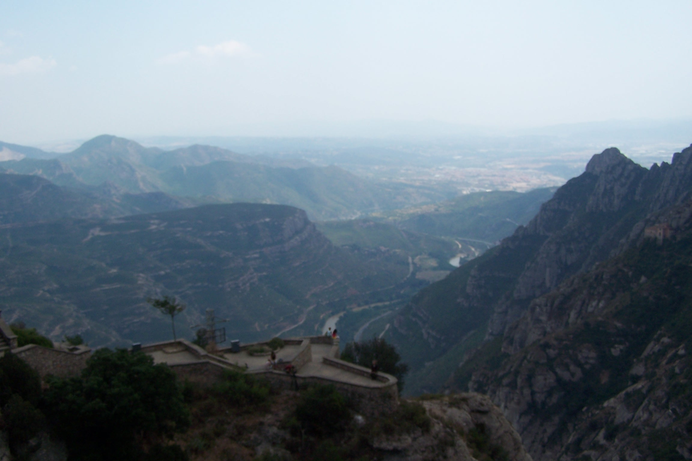 Montserrat, mountain in Catalonia/Catalunya. Eigen werk, 30-04-2006